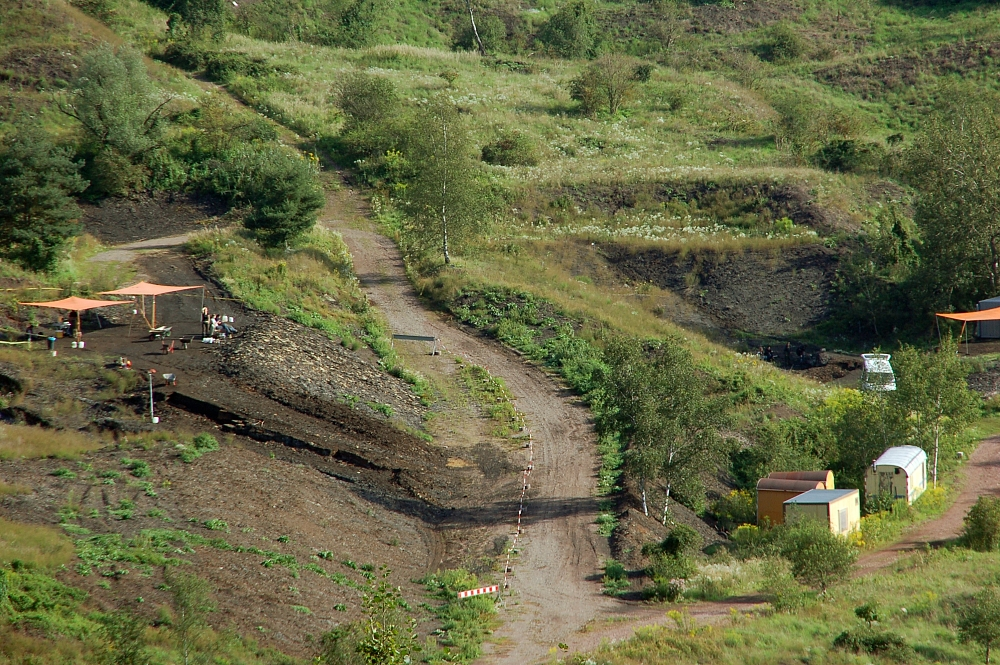 Grube Messel, near Darmstadt, Germany